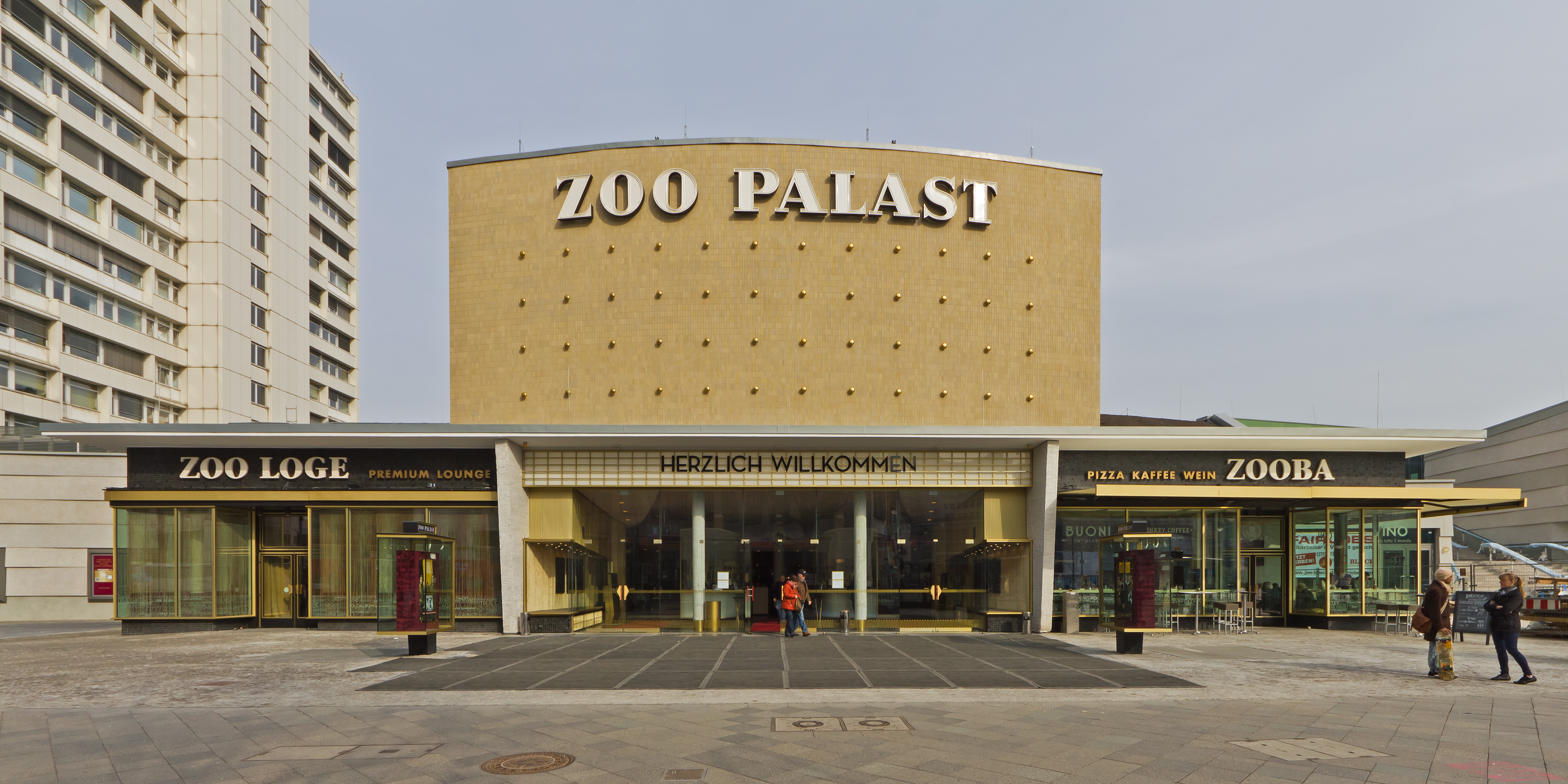 The cinema house «Zoo Palast» in Berlin, Germany